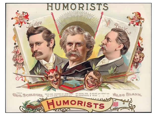 Cigarette card featuring humorists Bernhard Gillam, Mark Twain and Joseph Keppler (from Dave Thomson collection); George Schlegel, lithographer.